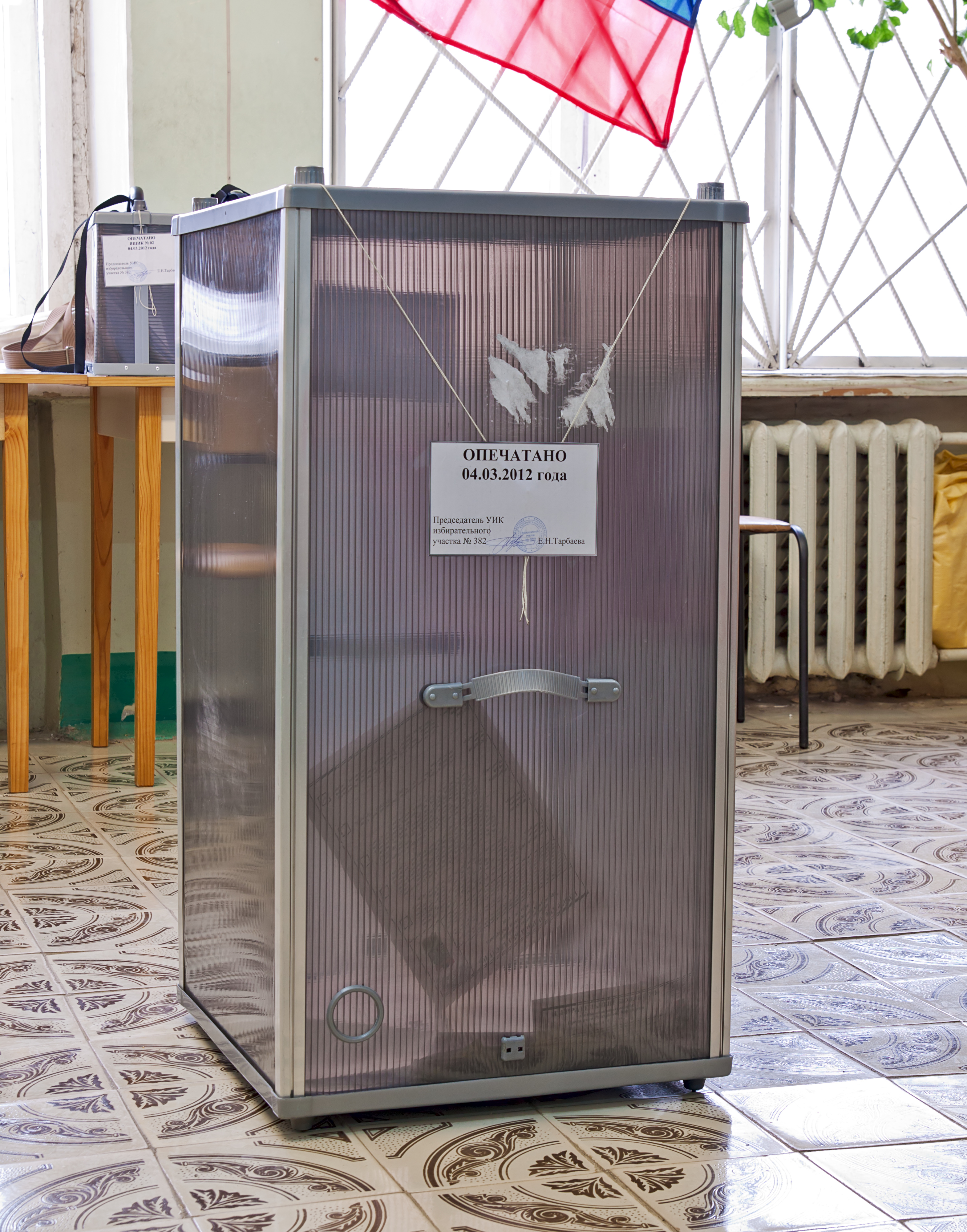 Voting box for Russian elections in March 2012. Pereslavl-Zalessky.